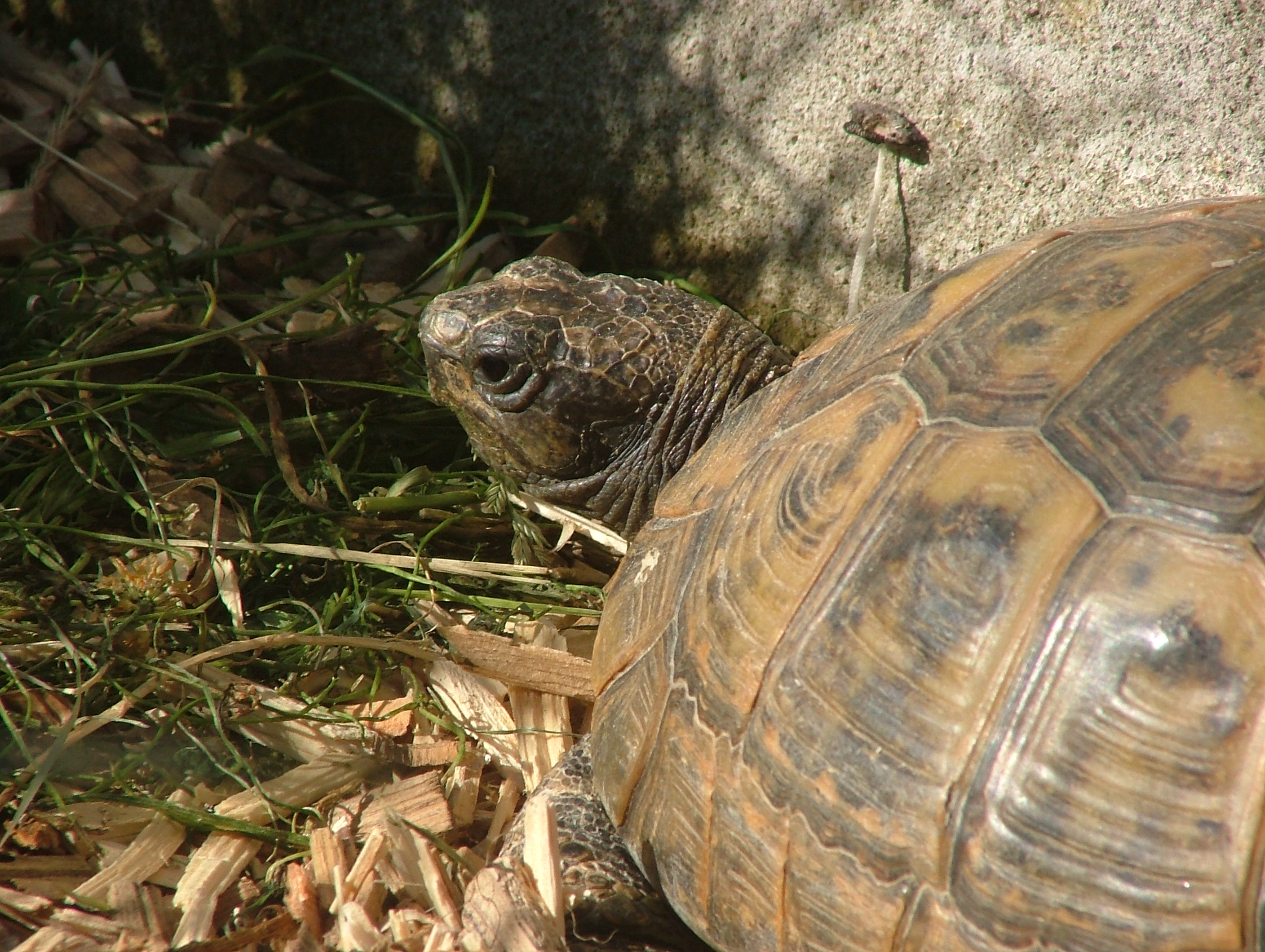 Testudo graeca